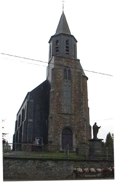 Church of Merny (Paliseul) Walon: Eglijhe di Mernî